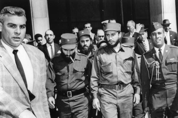 April 1959: Special Agent Leo Crampsey of Office of Security (SY) (left) escorts Cuba's new Premier Fidel Castro (center) during a visit to Washington, DC, shortly after the January revolution in Cuba